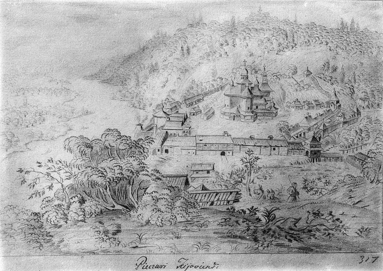 The historic Cossack Mezhyhirskyi Monastery near Kiev, Ukraine